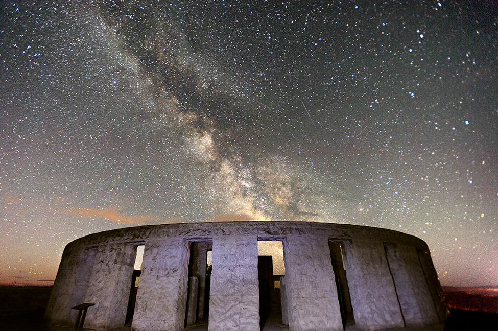 [declutr] I've always wanted to do one of these shots with the Milky Way. Since I couldn't figure out the intervalometer on my D700 to work for star trails, I went for this shot instead. Had a small window before the moon came out and made the night sky blue. I should go back there again on a darker night.